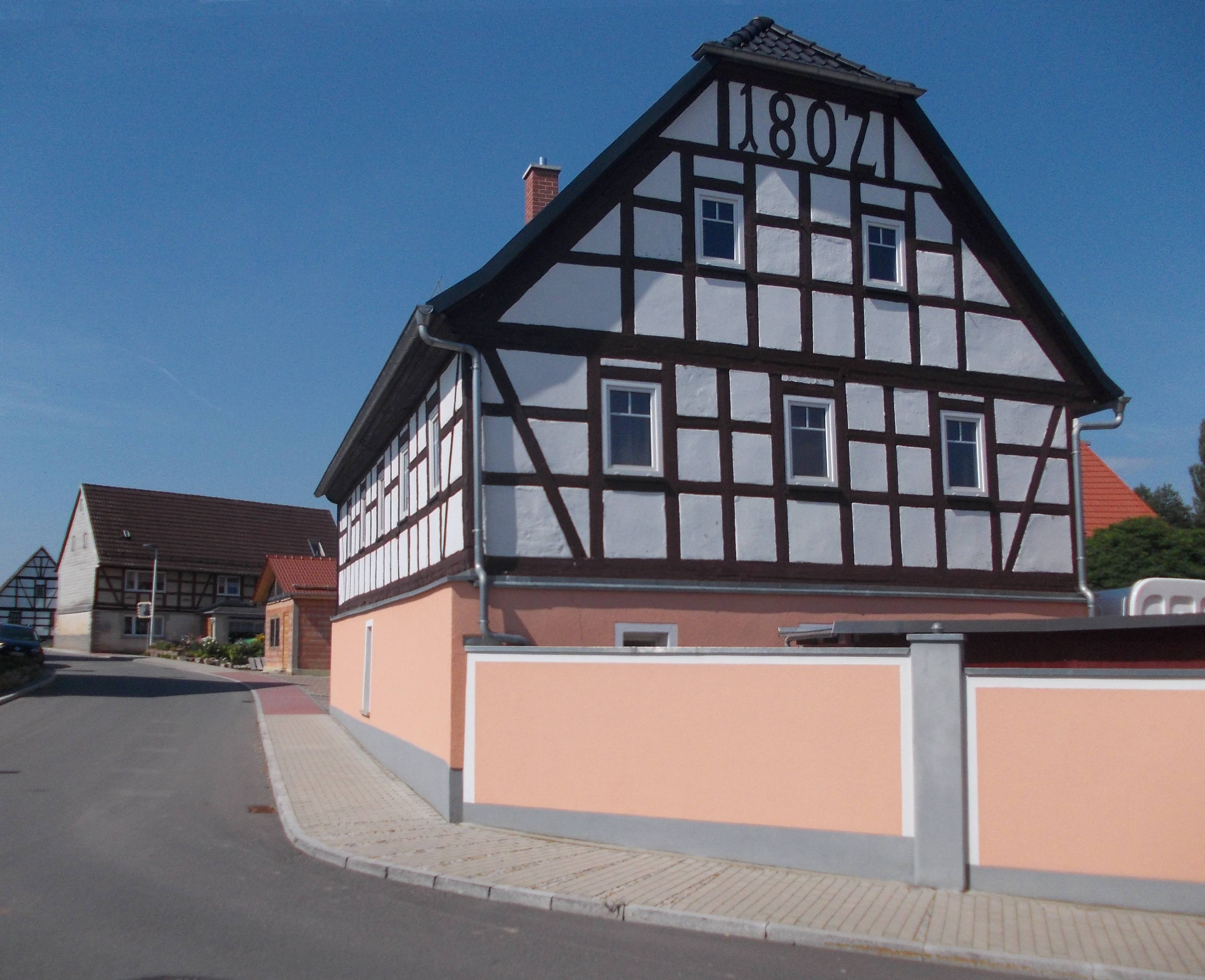 Half-timbered house at Lauenhainer Hauptstrasse (Crimmitschau, Zwickau district, Saxony)